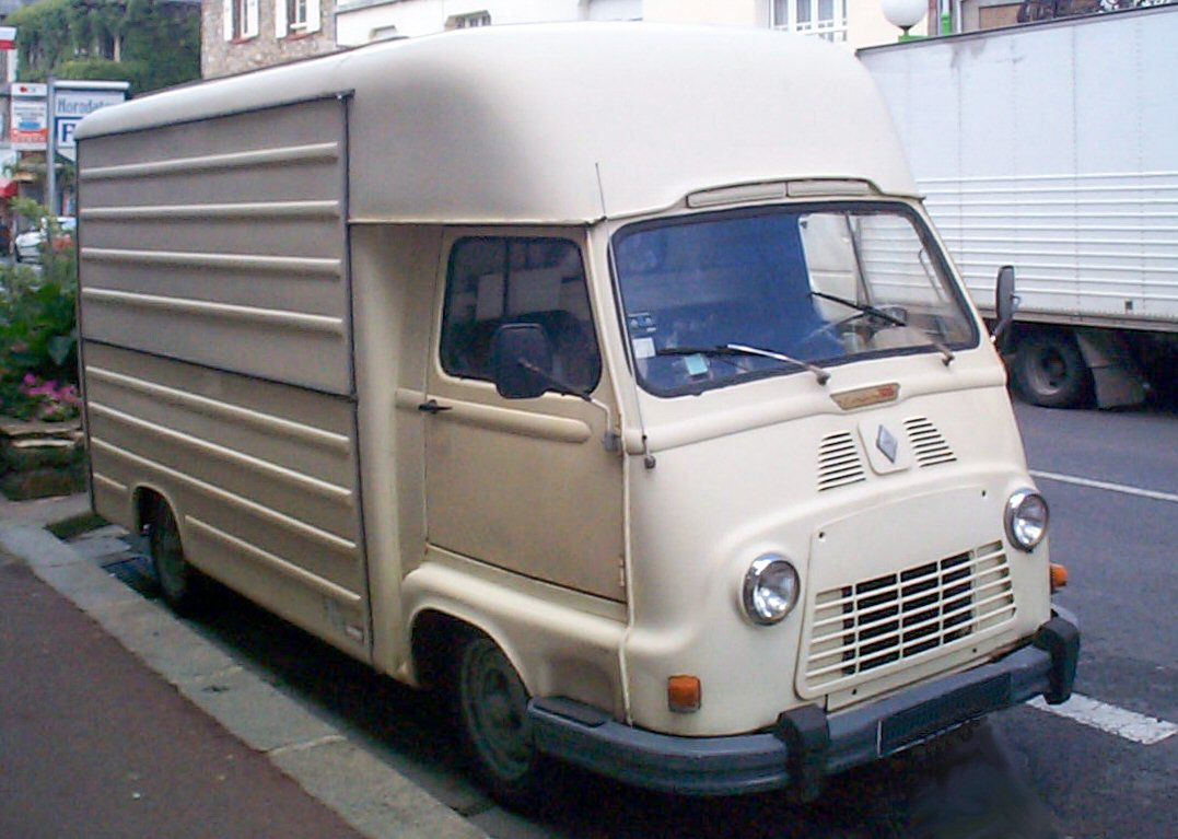 Renault Estafette seen in Granville, France